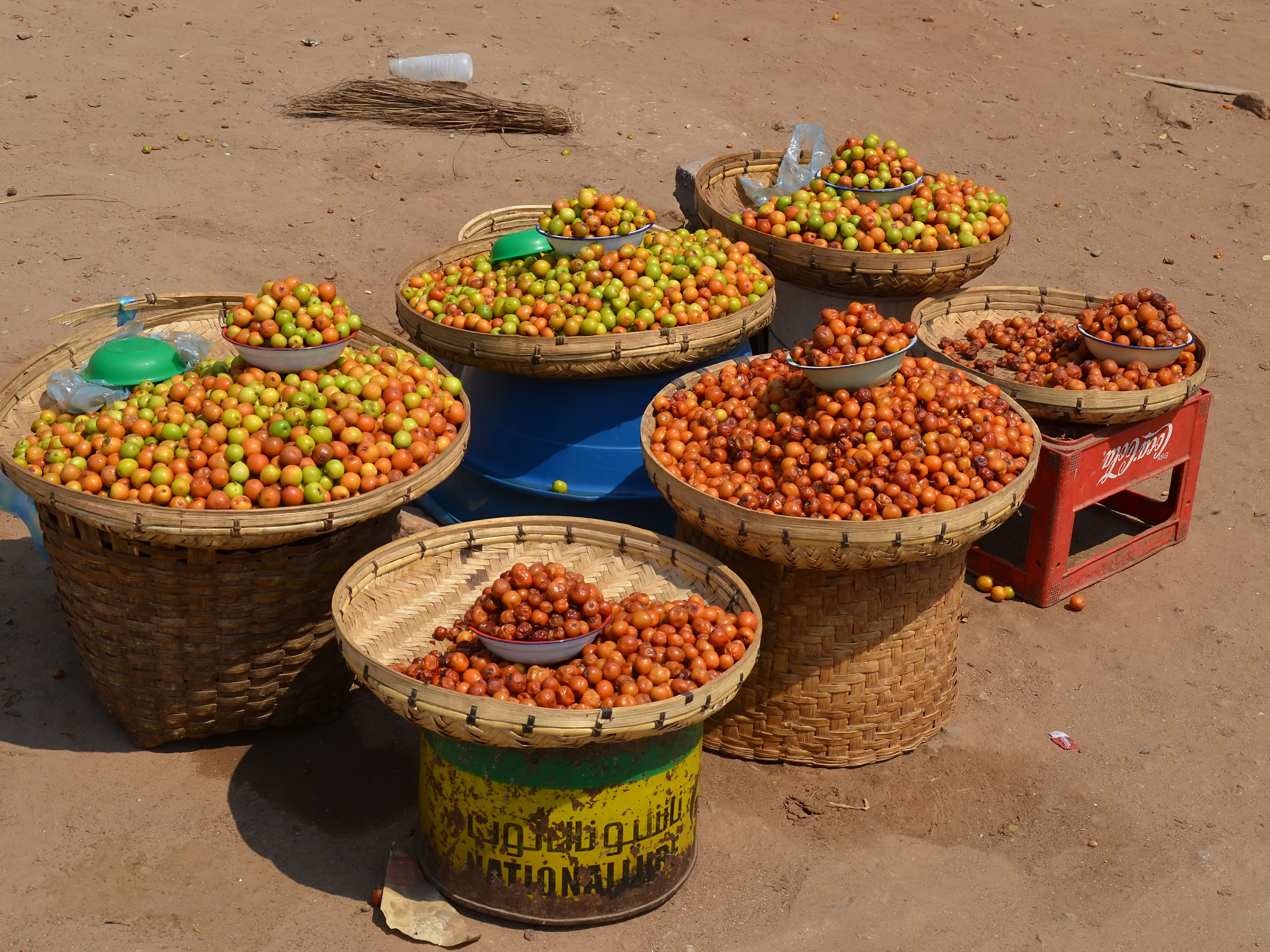 Masau fruits for sale at the Luangwa turn-off on Great East road, Zambia.